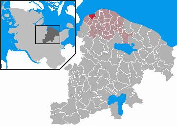 This map shows the area of the Gemeinde (municipality) Stein in the Kreis (district) Plön, Schleswig-Holstein, Germany.